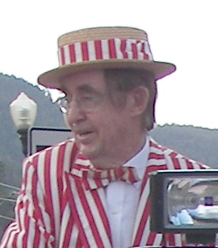 Profile of Jerry Haynes, also known as Mr. Peppermint, a Dallas programming personality, in the Red River NM 4th of July parade